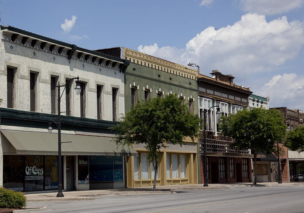 435-425 Broad Street in Gadsden, Alabama, part of the Gadsden Downtown Historic District.